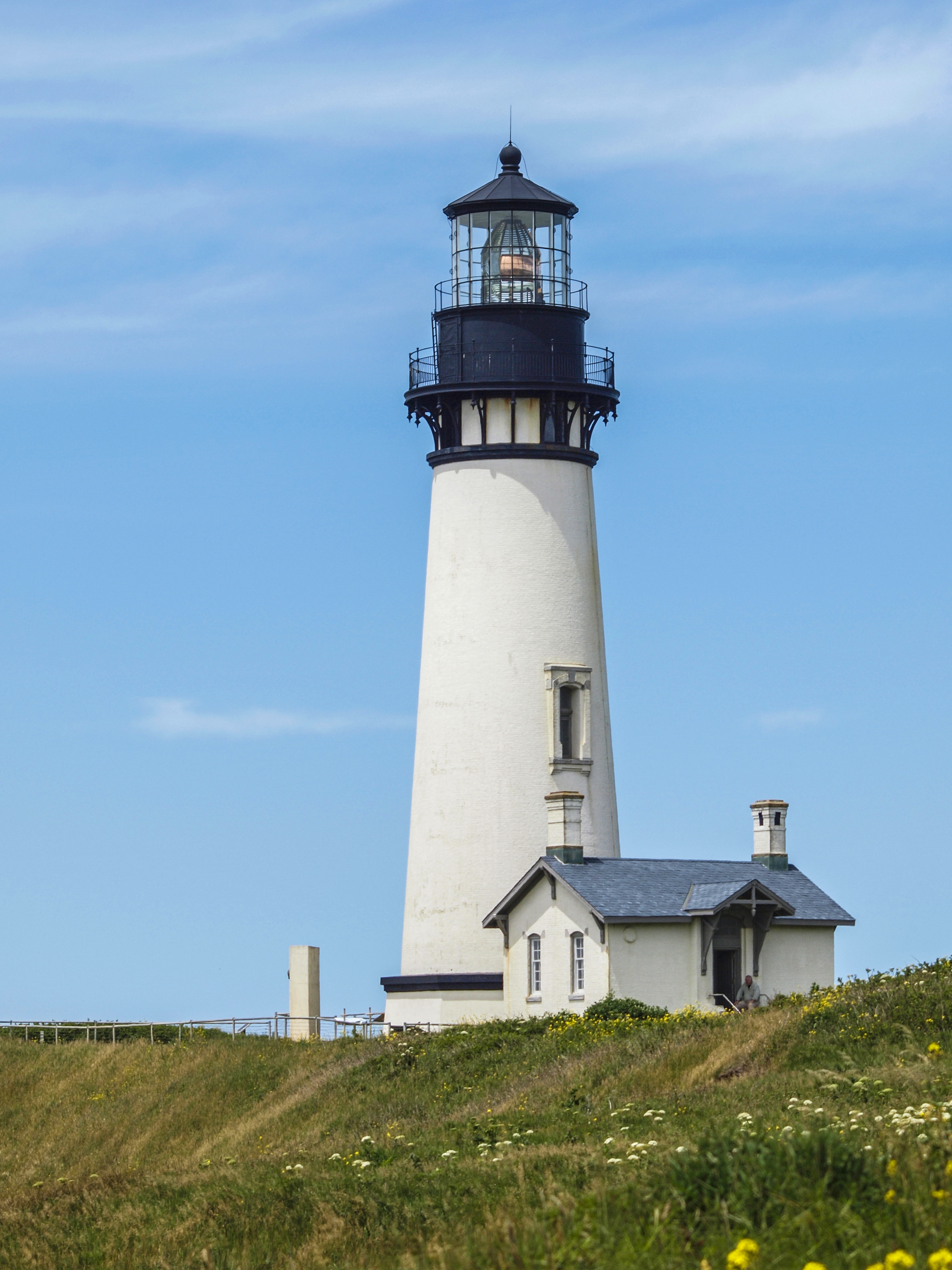 Come visit the BLM's Yaquina Head Outstanding Natural Area at the beautiful Oregon Coast! This interpretive center features exhibits on seabirds and marine life as well as human history from the headland. You can see the wheelhouse of an historic ship, check out a recreated rocky island and its inhabitants, and witness a full scale replica of the lighthouse lantern. All BLM exhibits and interpretive specialists delivery the rich history of Yaquina Head. For more information, please visit us online at: Photo by Jeff Clark/BLM/2011